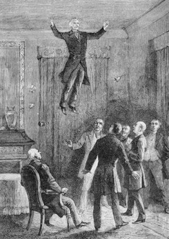 Daniel Dunglas Home, the famous Scots-born medium of the nineteeth century, levitates himself in front of witnesses in the home of Ward Cheney in South Manchester, Connecticut on August 8, 1852. This illustration was first published in 1887 in the book Les Mystères de la science (The Mysteries of Science) by French psychical researcher Louis Figuier.